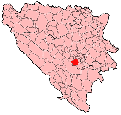 Location of Hadžići municipality in Bosnia and Herzegovina.